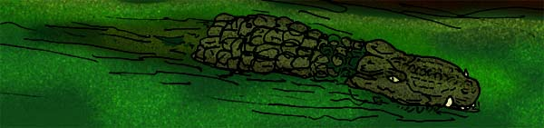 Reconstruction of the Pliocene to Pleistocene mekosuchine crocodile, Pallimnarchus pollens, of prehistoric Queensland.